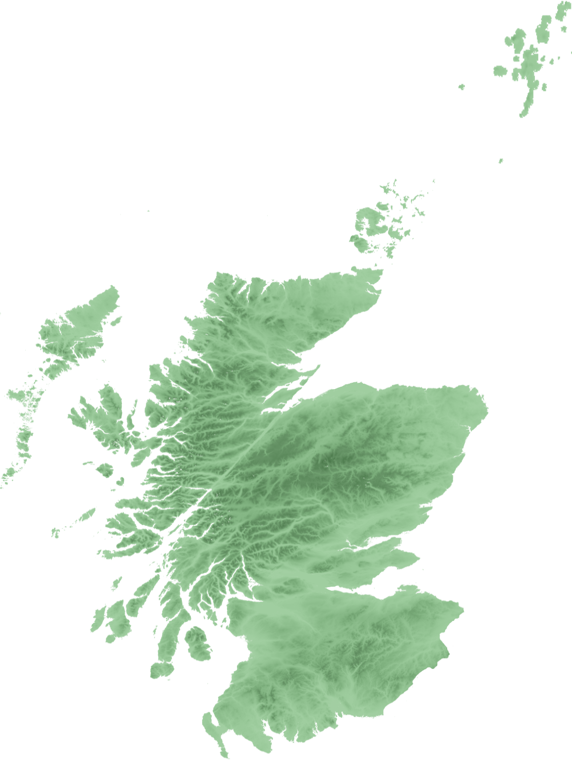 Topo map of Scotland for use in Scottish infoboxes - equidistant cylindrical projection as naturaly outputted from SRTM data, stretched 150% vertically as deduced by User:Anameofmyveryown for easier viewing.